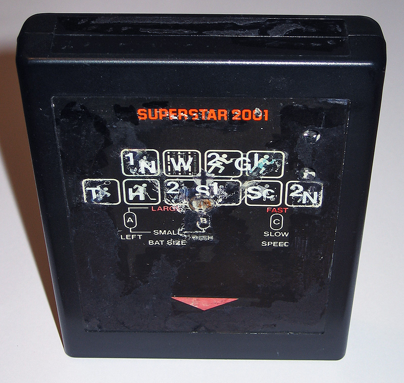 The front of the case of a game cartridge based around the GI AY-3-8610. Designed for the Prinztronic Tournament Colour Programmable 2000, though I believe it may also work with other consoles. You can (just) see the holes for adjusting two pots, and a screw in the middle. The letters and red colouring on the label are *not* original. Although functional, this is obviously in cosmetically poor condition, and not an ideal illustration of the cart.